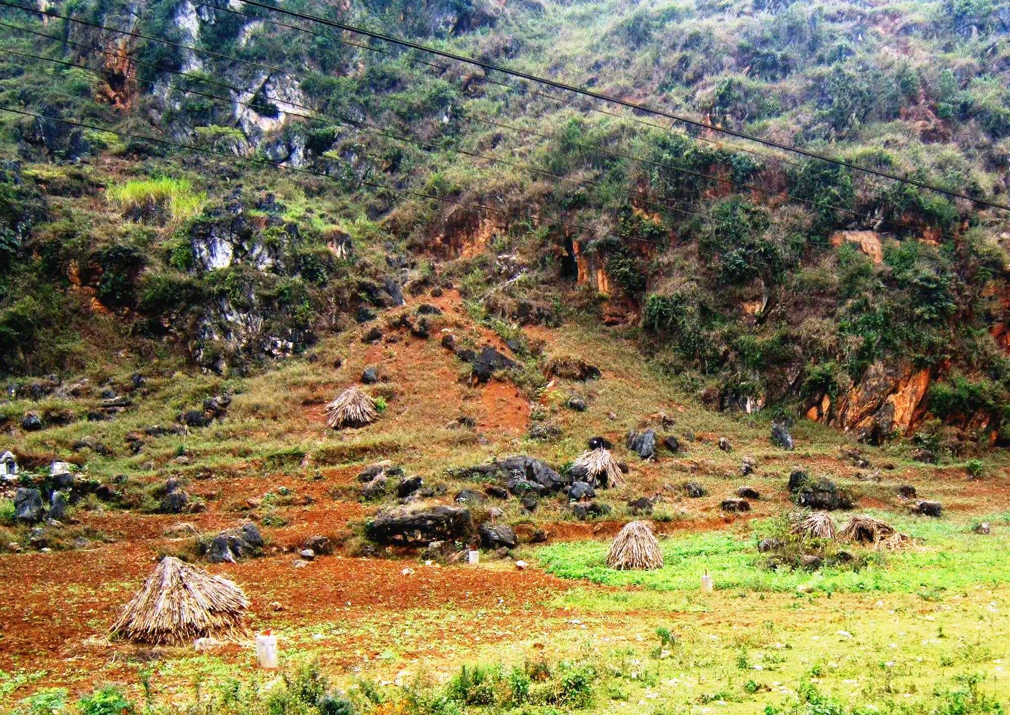 Colluvium @ Slope of Limestone, Ha Giang province